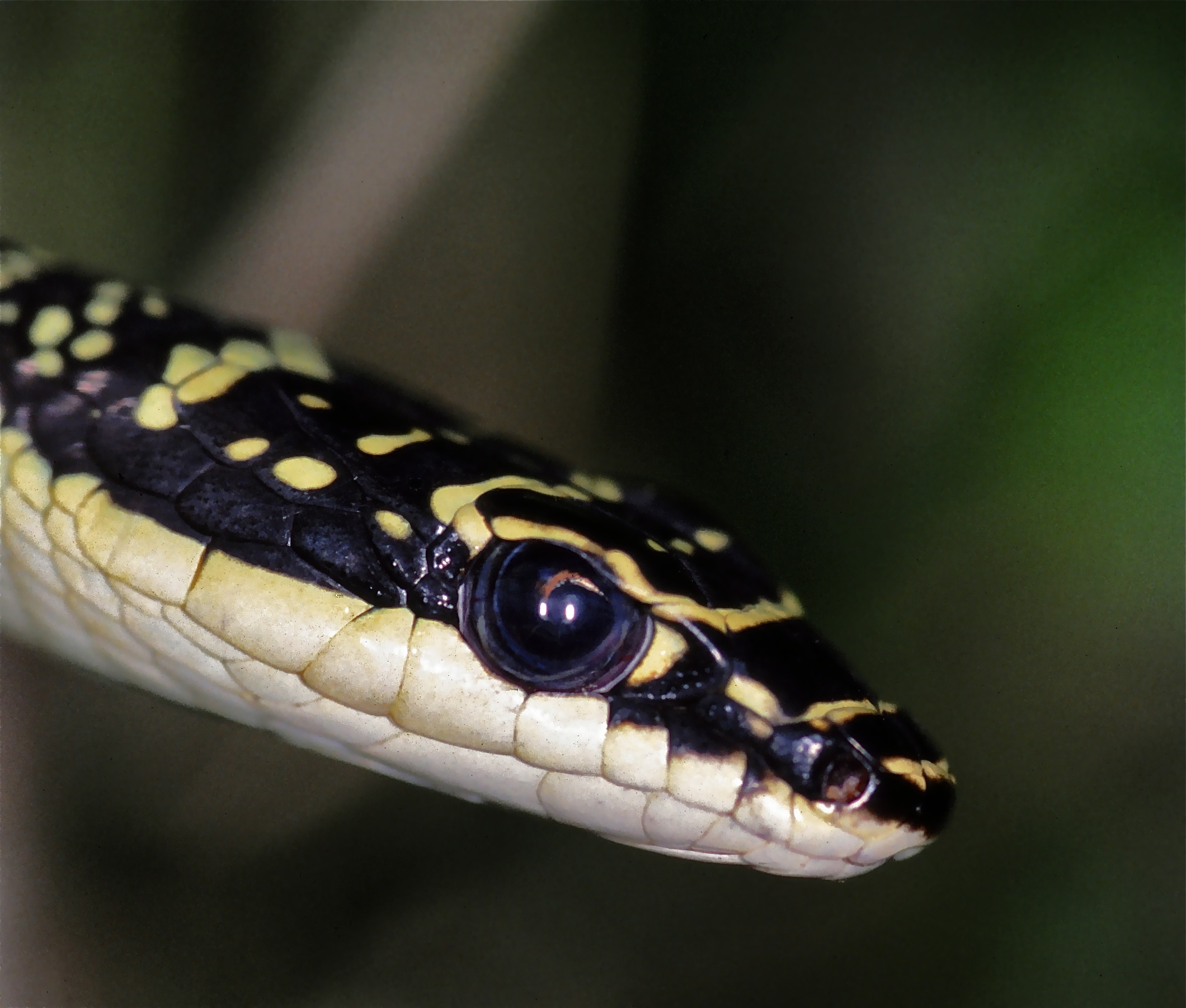 Nam Nao NP, THAILAND SCanned Slide from 2003